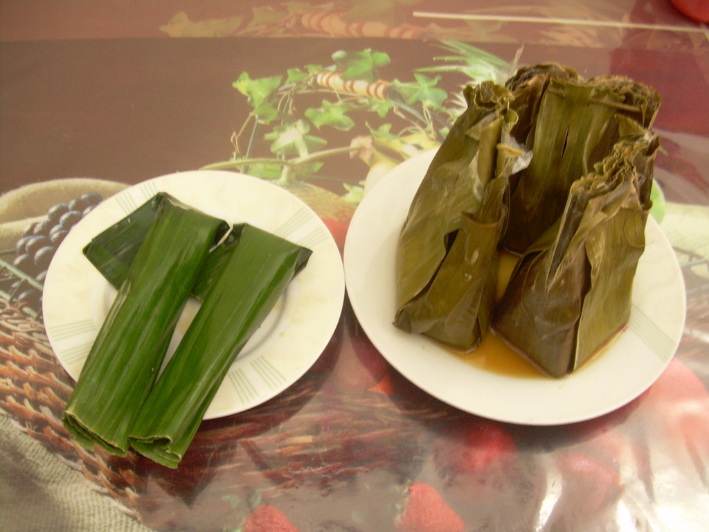 Bubur Lolos (left) and Botok Roti (right), traditional snacks from Cirebon